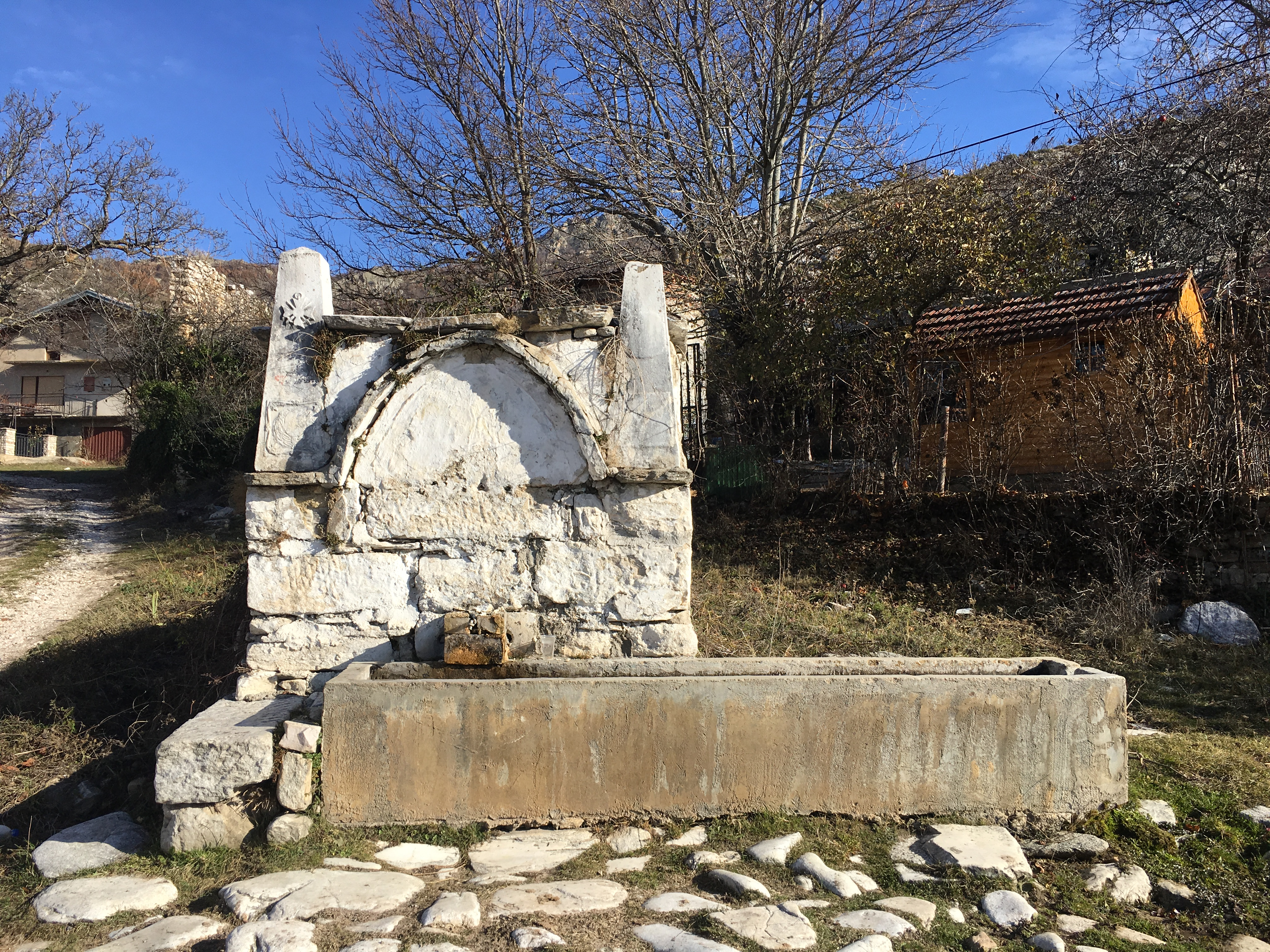 Village pump in Pletvar